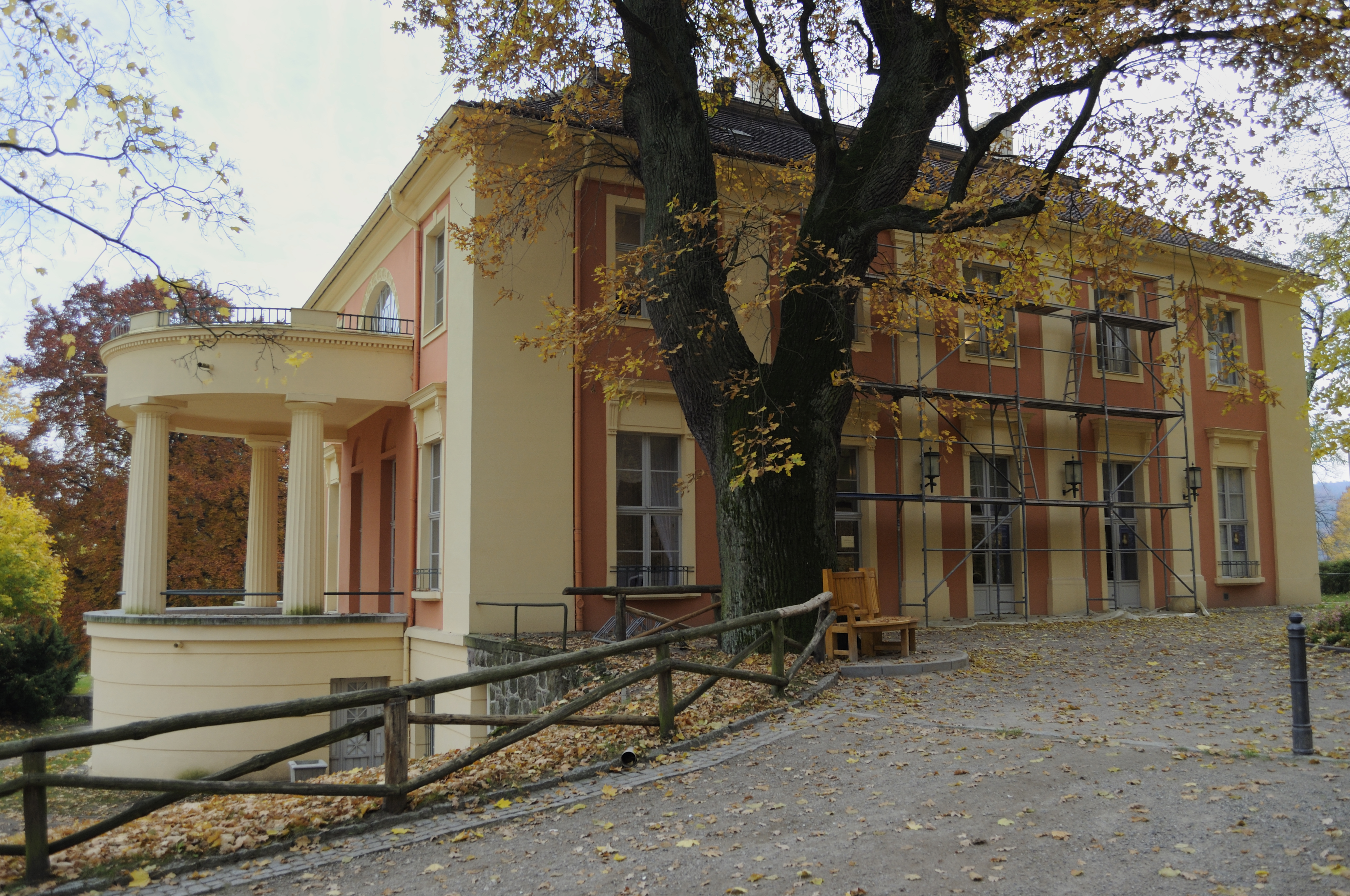 Picture taken in Bad Freienwalde.